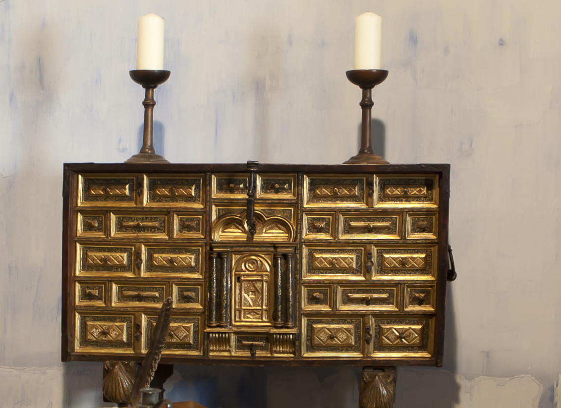 ©ChateauduRivau